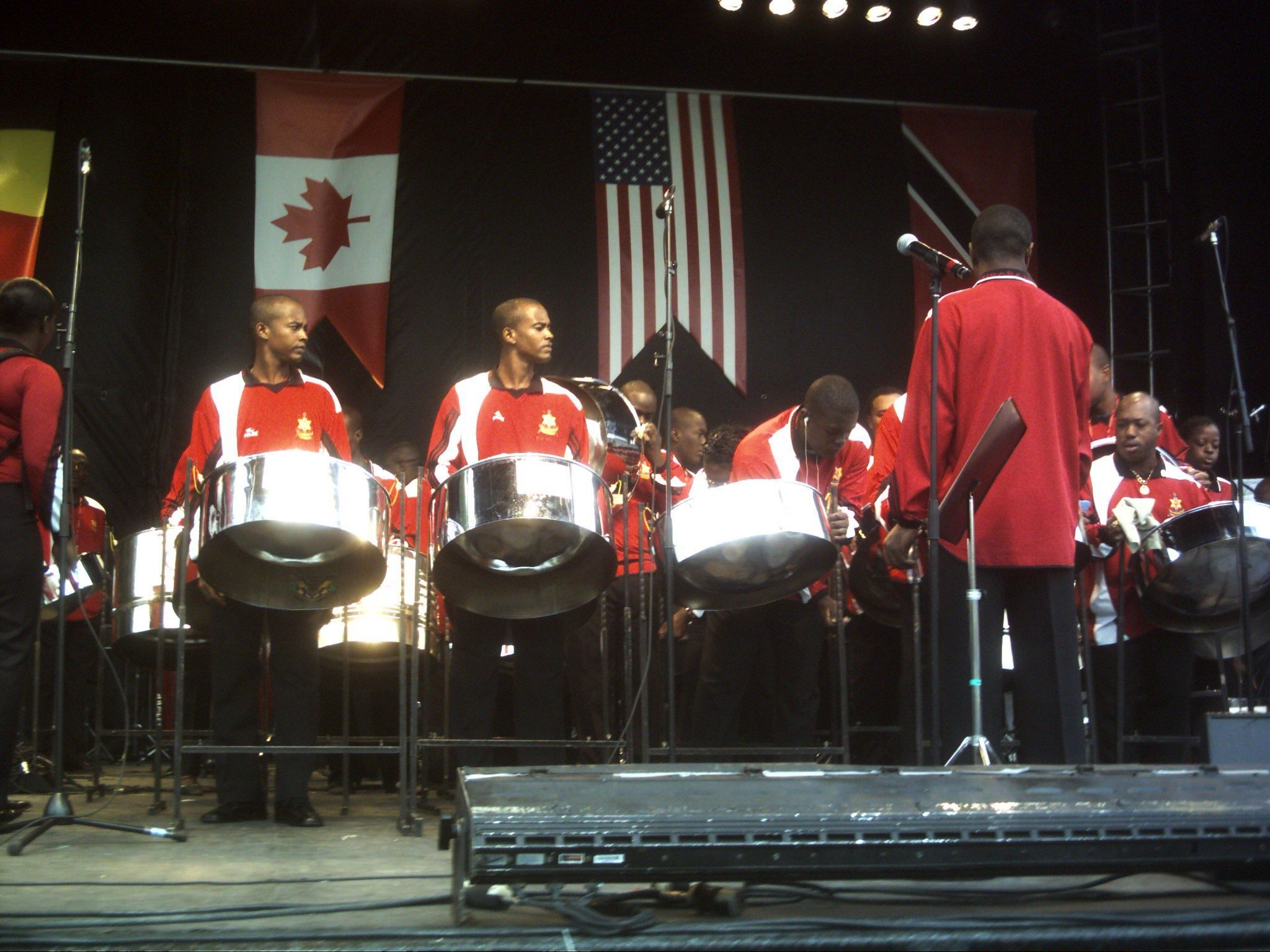 In Quebec City : Festival international de musiques militaires de Québec, 2009